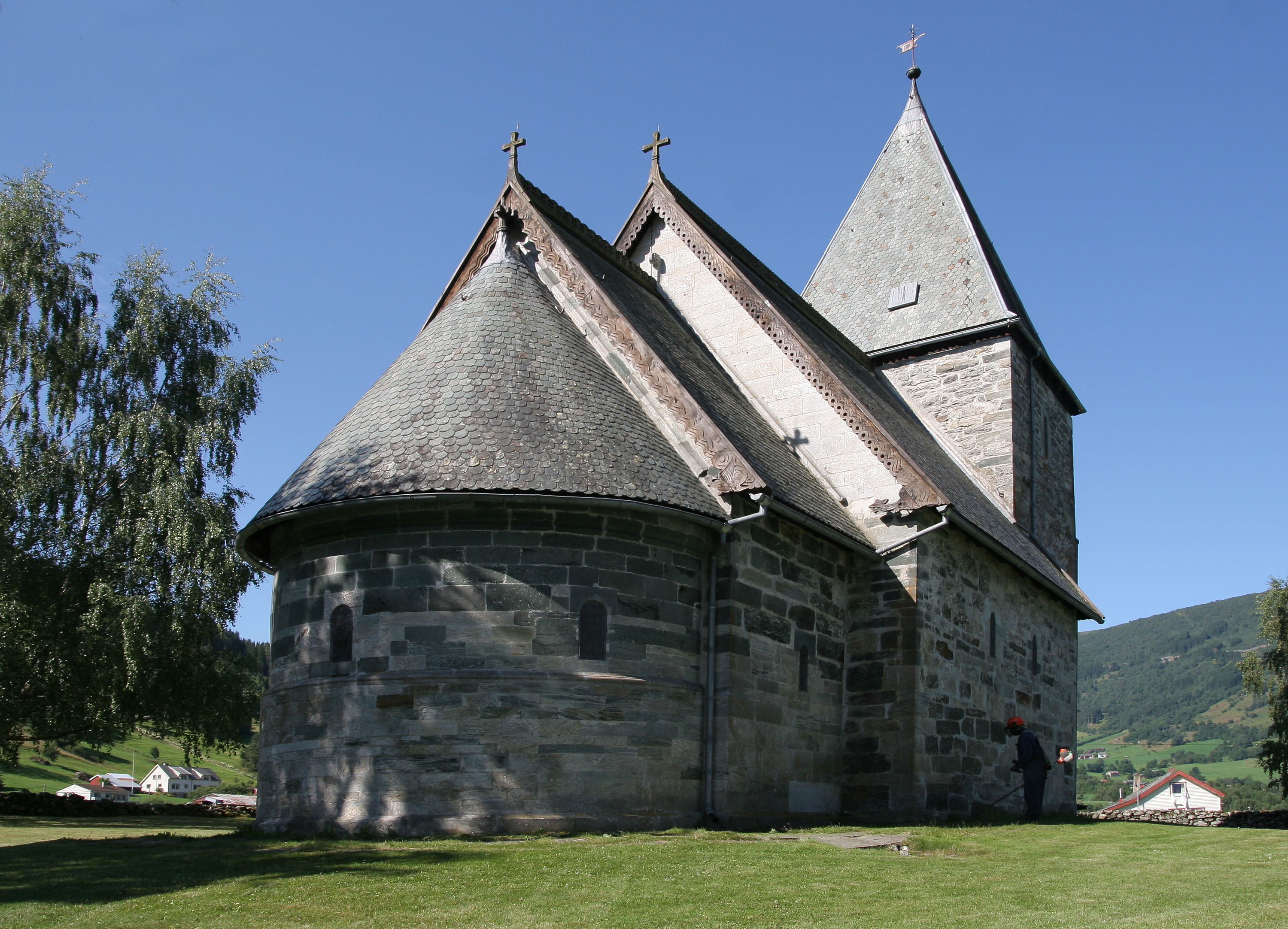 The Hove church in Vik (Norway)